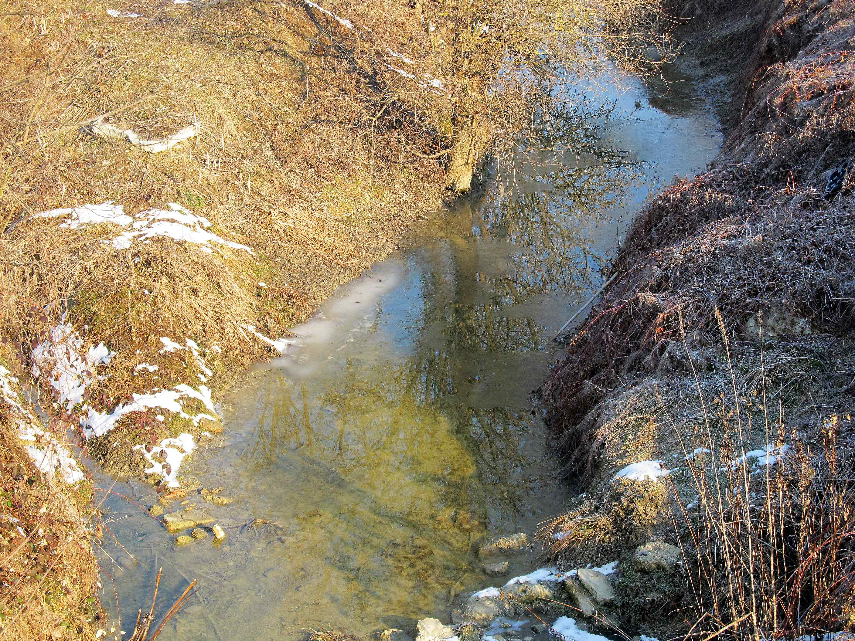 Versa creek in Montiglio Monferrato